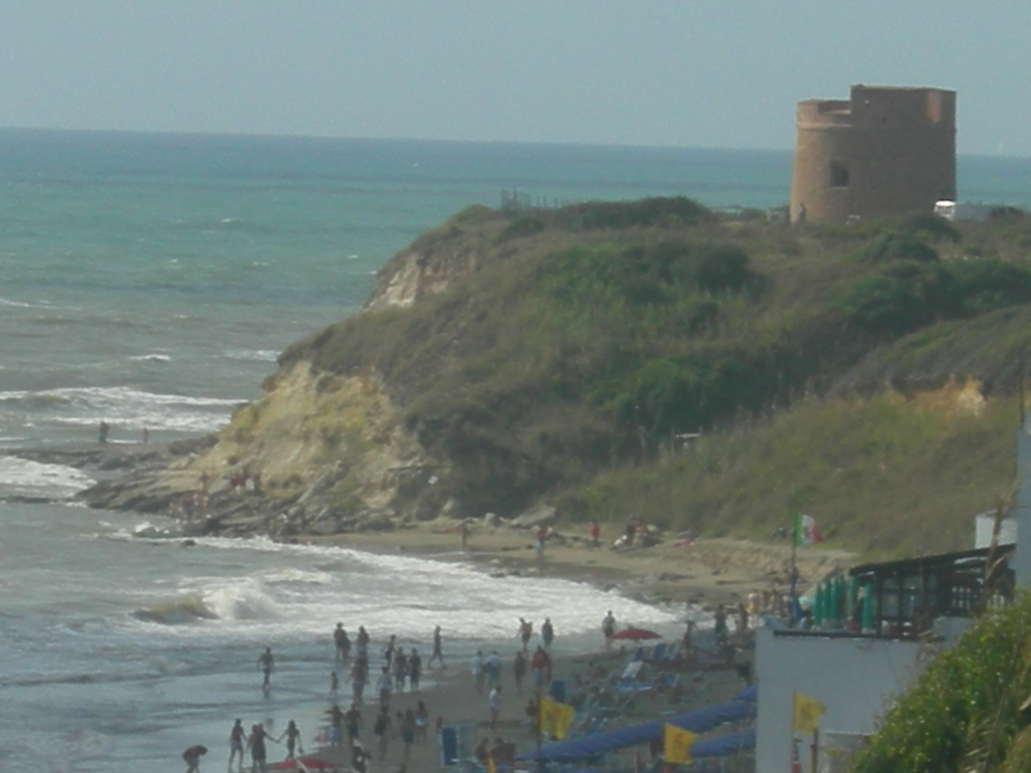 Tor Caldara Tower, Anzio, Rome, Italy